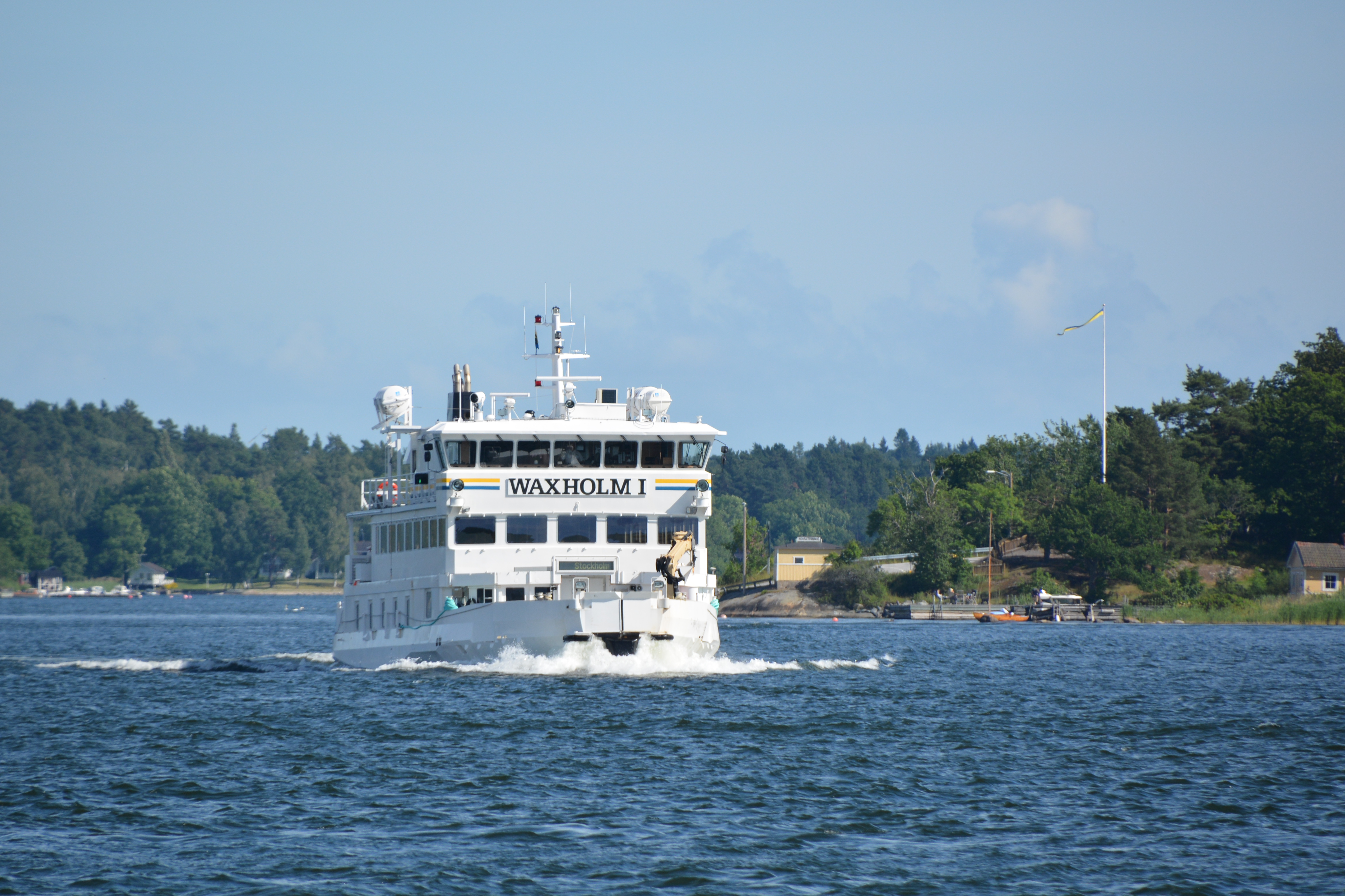 M/S Waxholm I approaching Vaxholm harbour